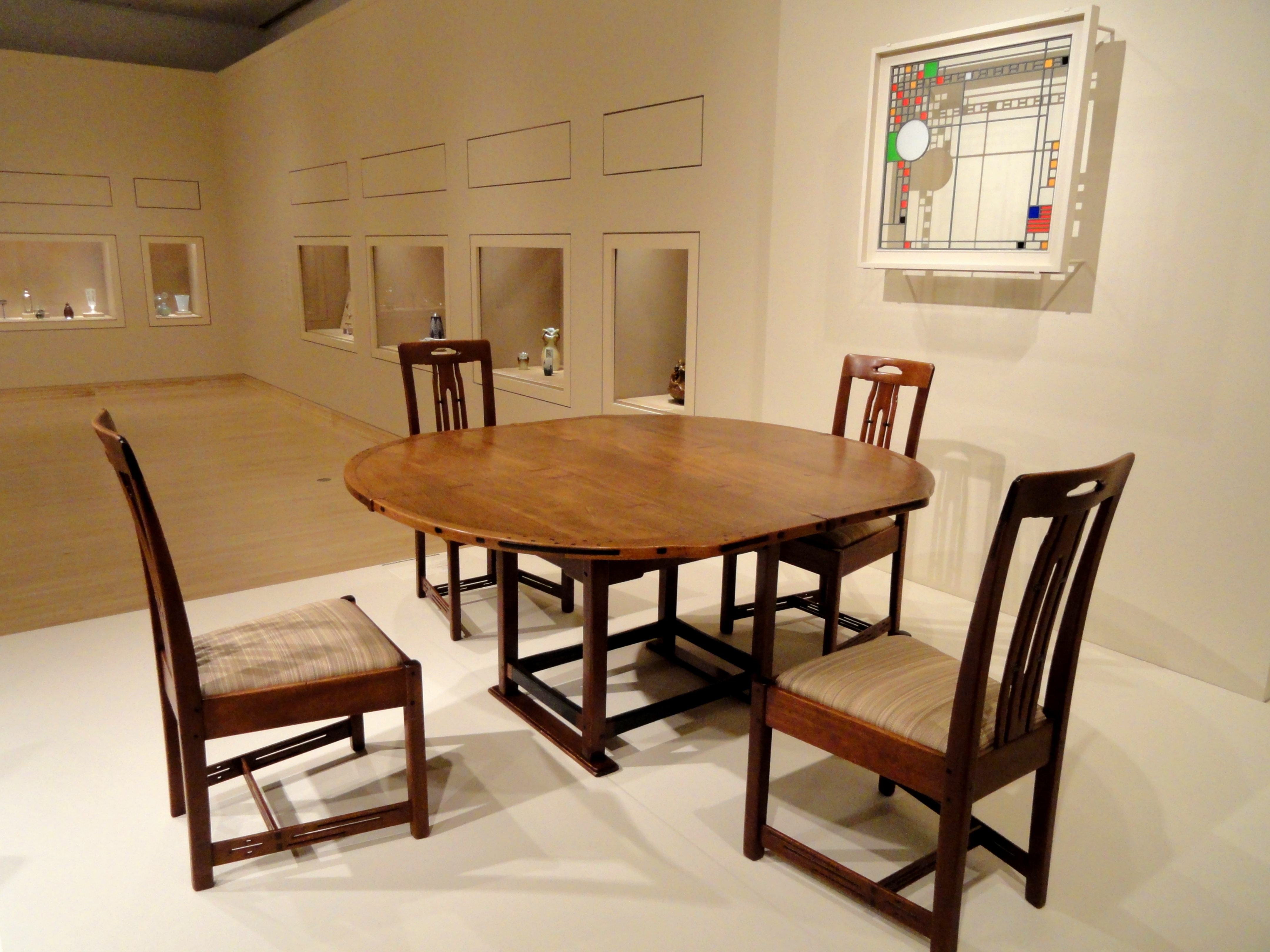 Dining Room Suite, Greene & Greene, 1908; designed for Casa Barranca, the Charles Millard Pratt House, Ojai, California. Exhibit in the Indianapolis Museum of Art, Indianapolis, Indiana, USA.